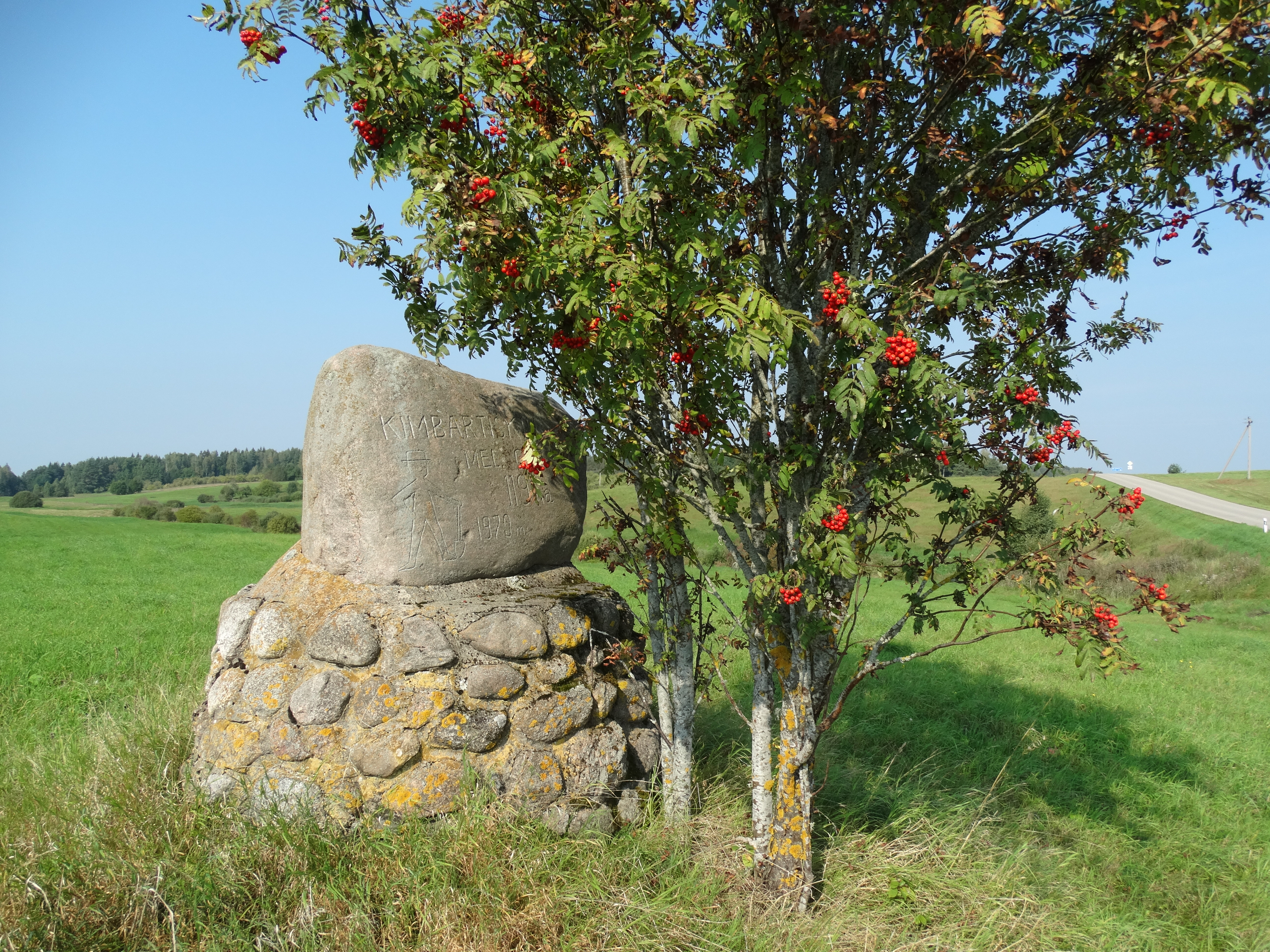 Inscribed stone, Veselava, Zarasai District, Lithuania